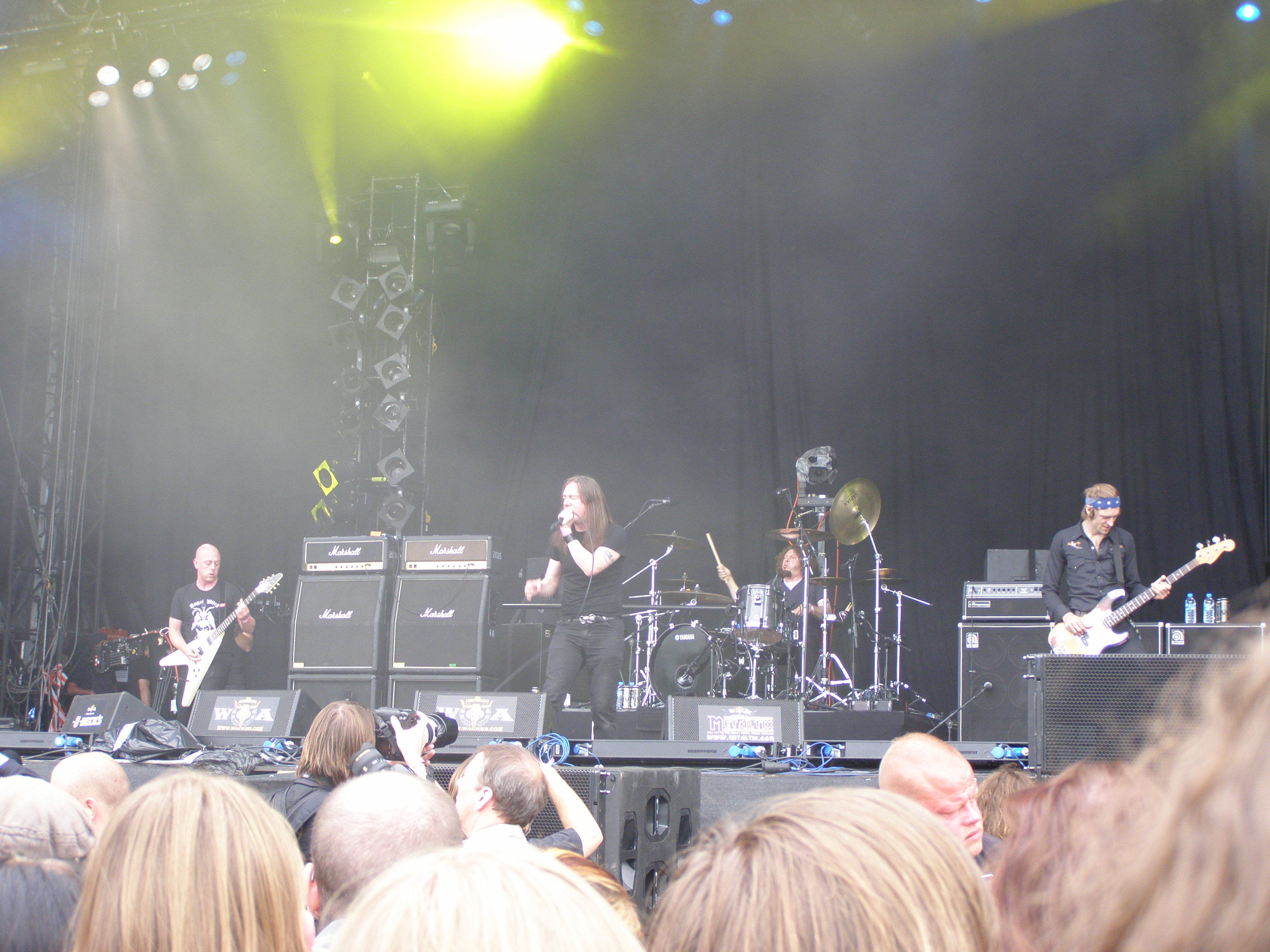 Cathedral live in Wacken